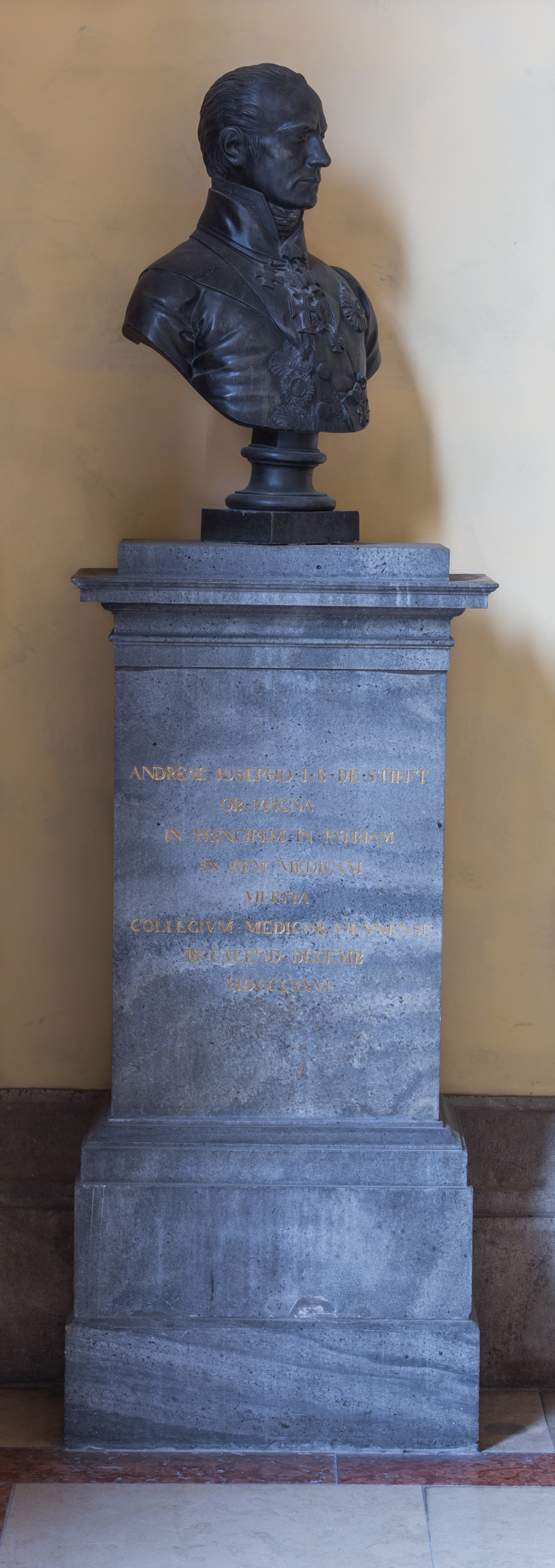 Andreas Josef von Stifft (1760-1836), bust (bronze) in the Arkadenhof of the University of Vienna, (Maisel# 2). Artist: Franz Klein (1777-1840), unveiled 1889